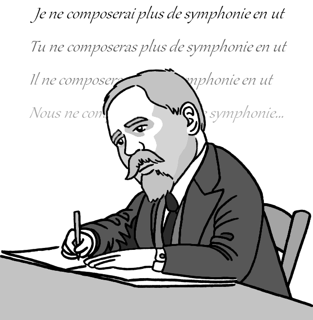 Paul Dukas combines “I'll never compose more Symphony in C”